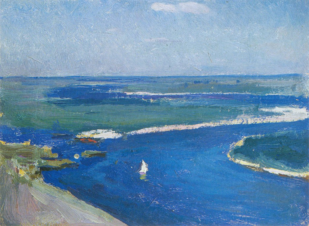 Dnieper River